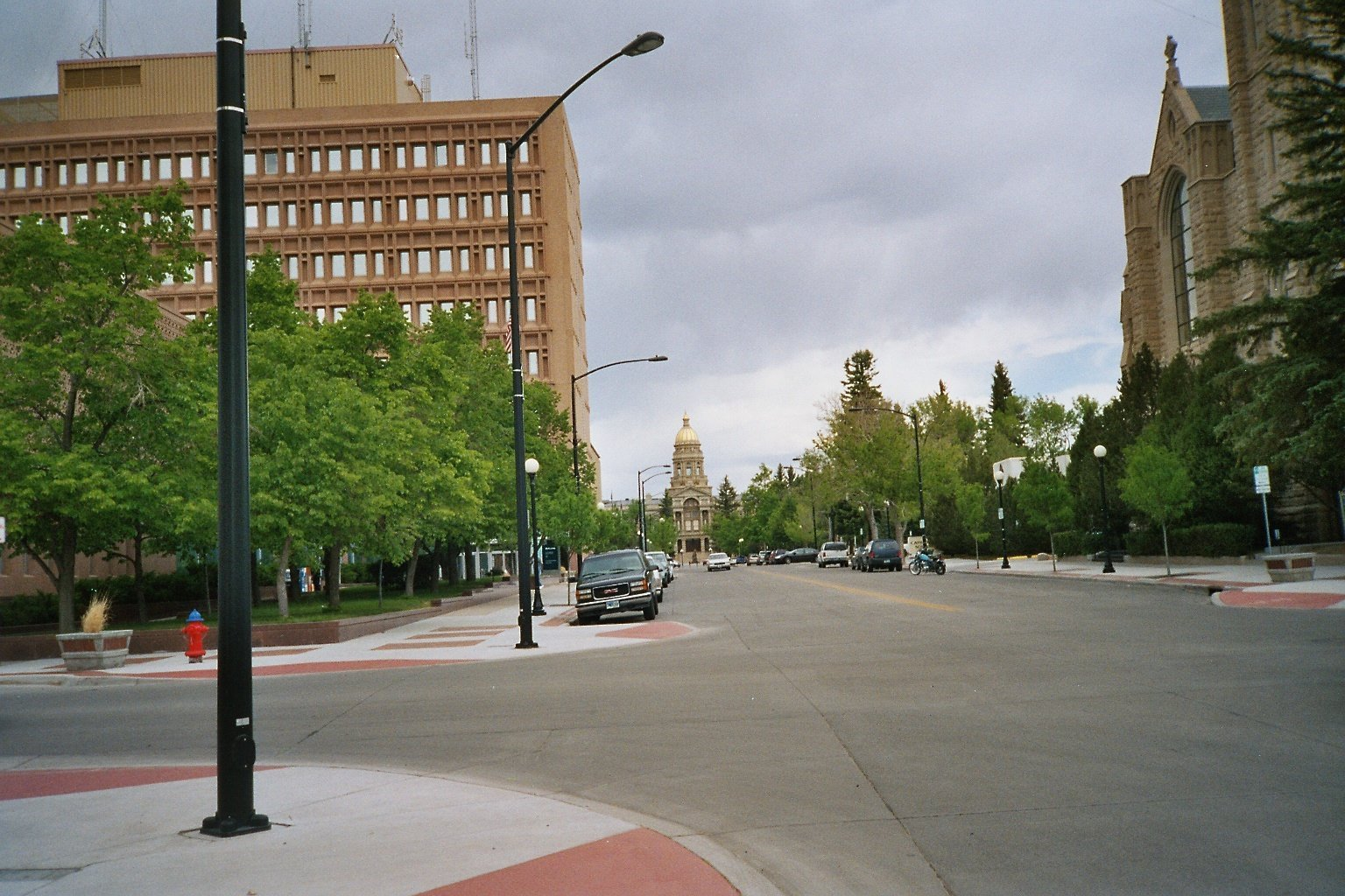 View to the Capitol of Cheyenne (in the background)